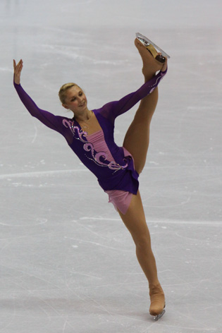 Ksenia Makarova at the 2009-2010 Junior Grand Prix Lake Placid